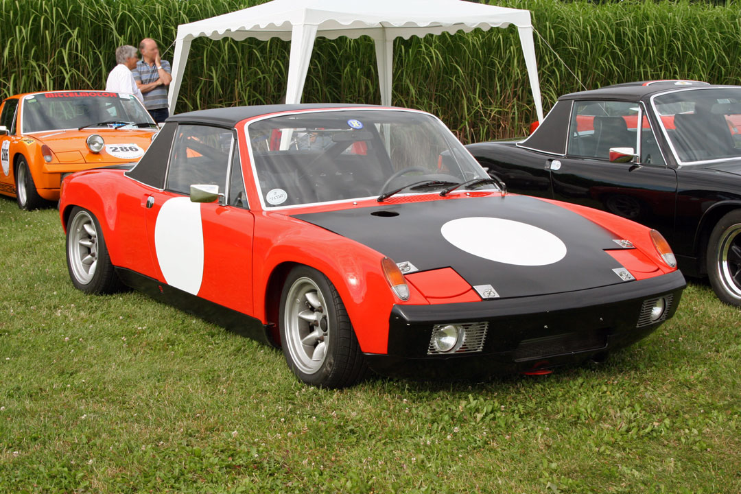 Porsche 914-6 at Classic Days Schloss Dyck 2012. View: front right